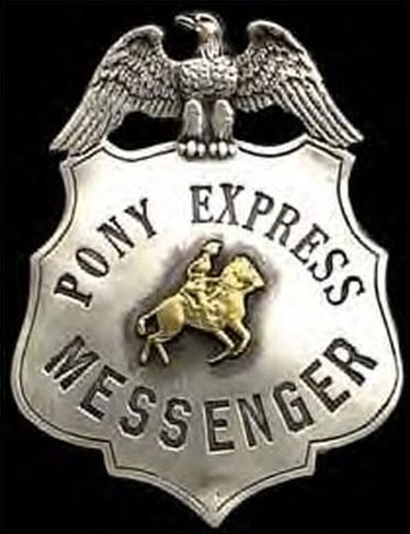 Replica of the Pony Express Messenger's badge